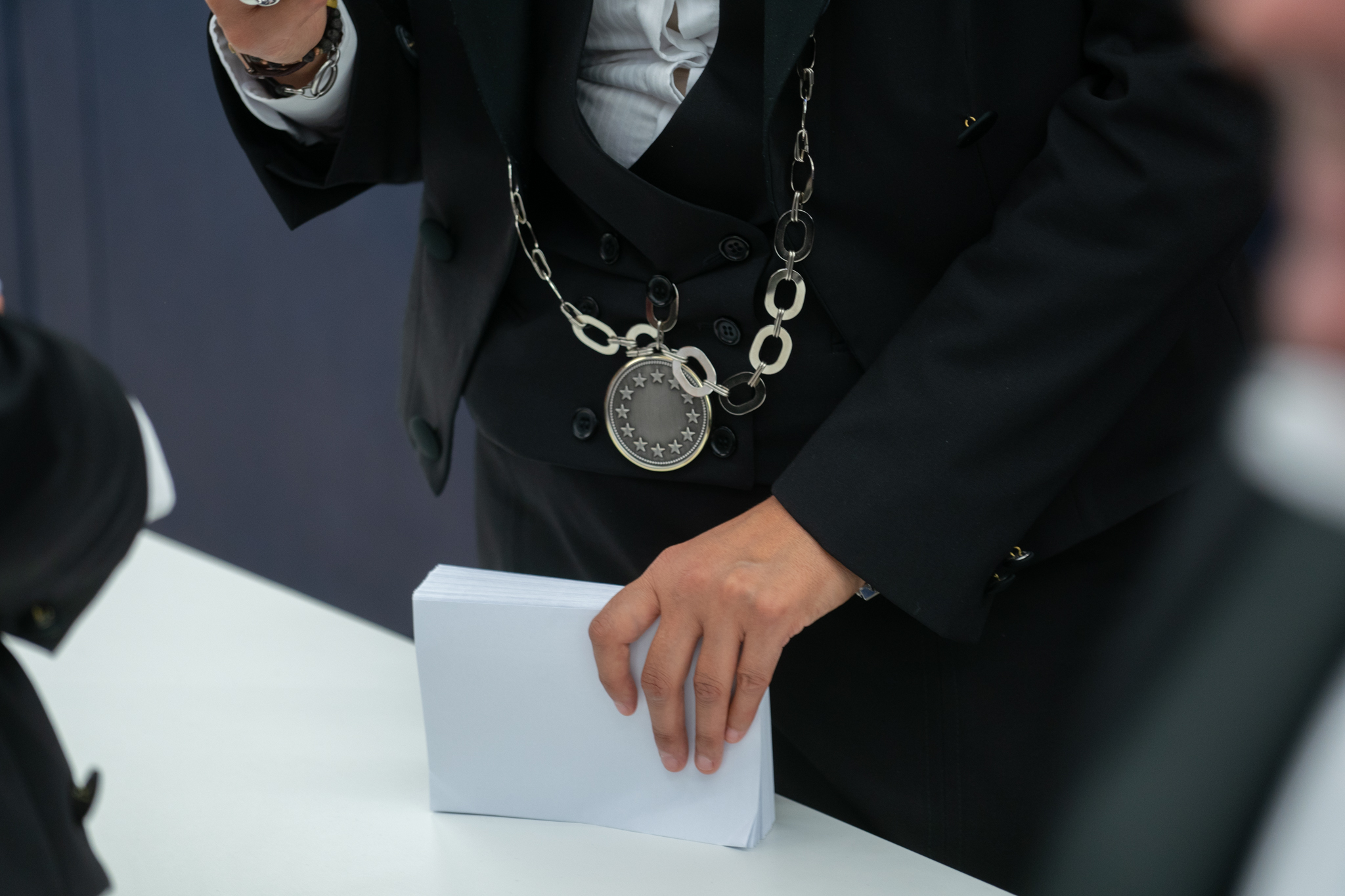 This photo is free to use under Creative Commons license CC-BY-4.0 and must be credited: "CC-BY-4.0: © European Union 2019 – Source: EP". No model release form if applicable. For bigger HR files please contact: webcom-flickr(AT)